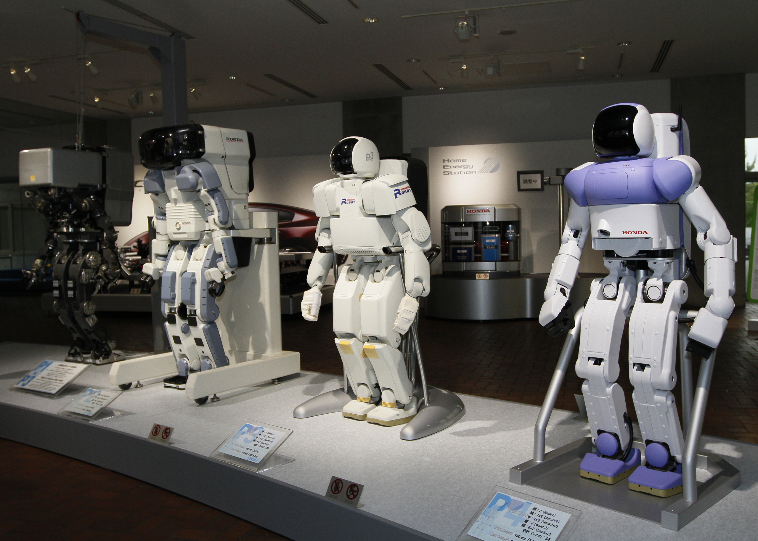 Honda prototype robots; P1, P2, P3, and P4 (from left to right).